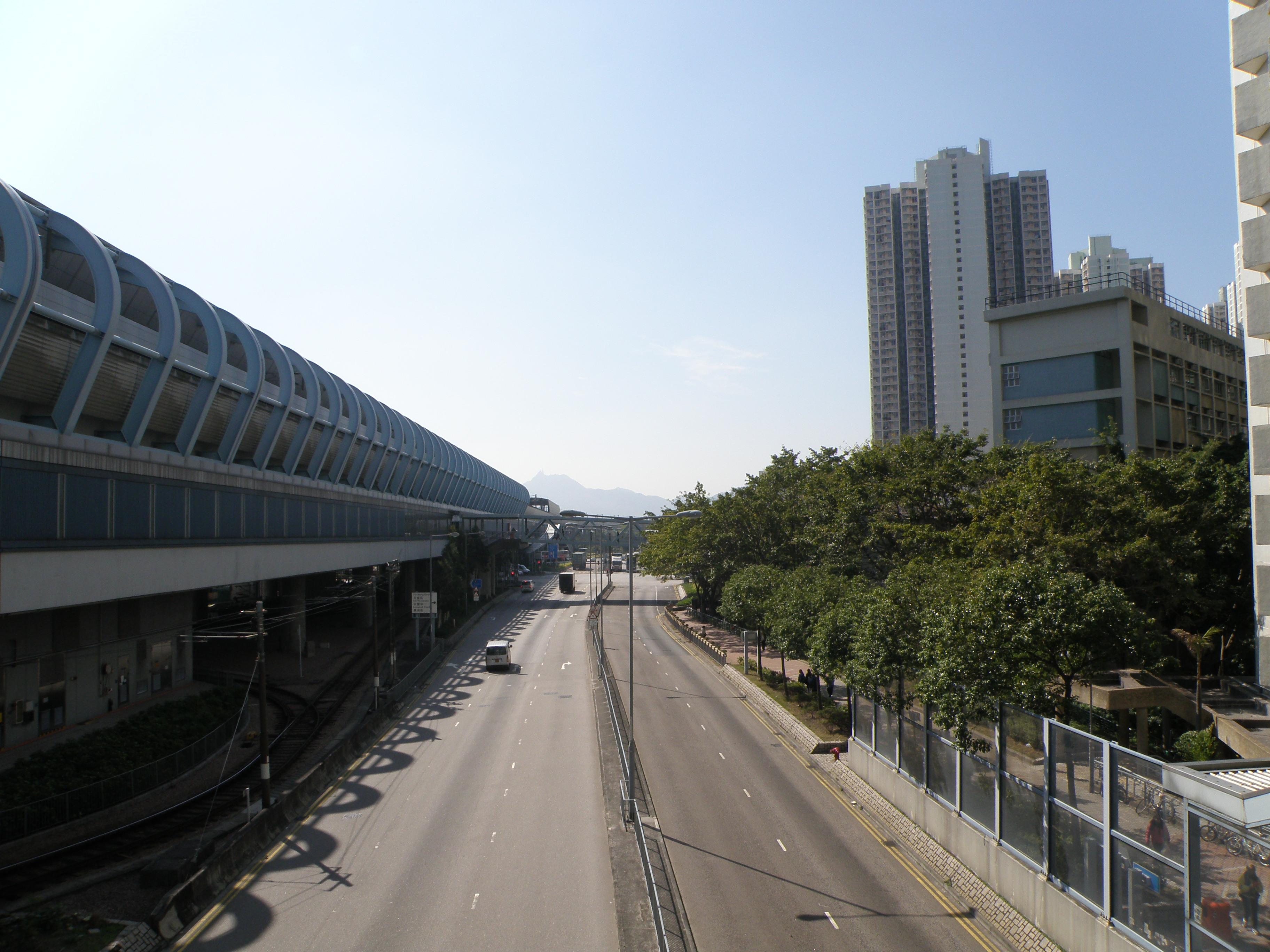 Tin Fuk Road in Tin Shui Wai, Hong Kong.